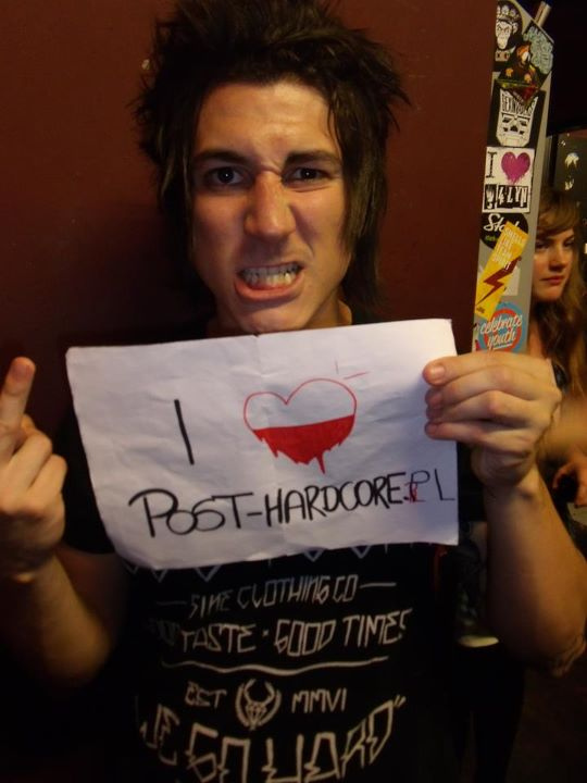 Jaime Preciado, Pierce The Veil @ Magnet Club, Berlin, De (03/10/2011)